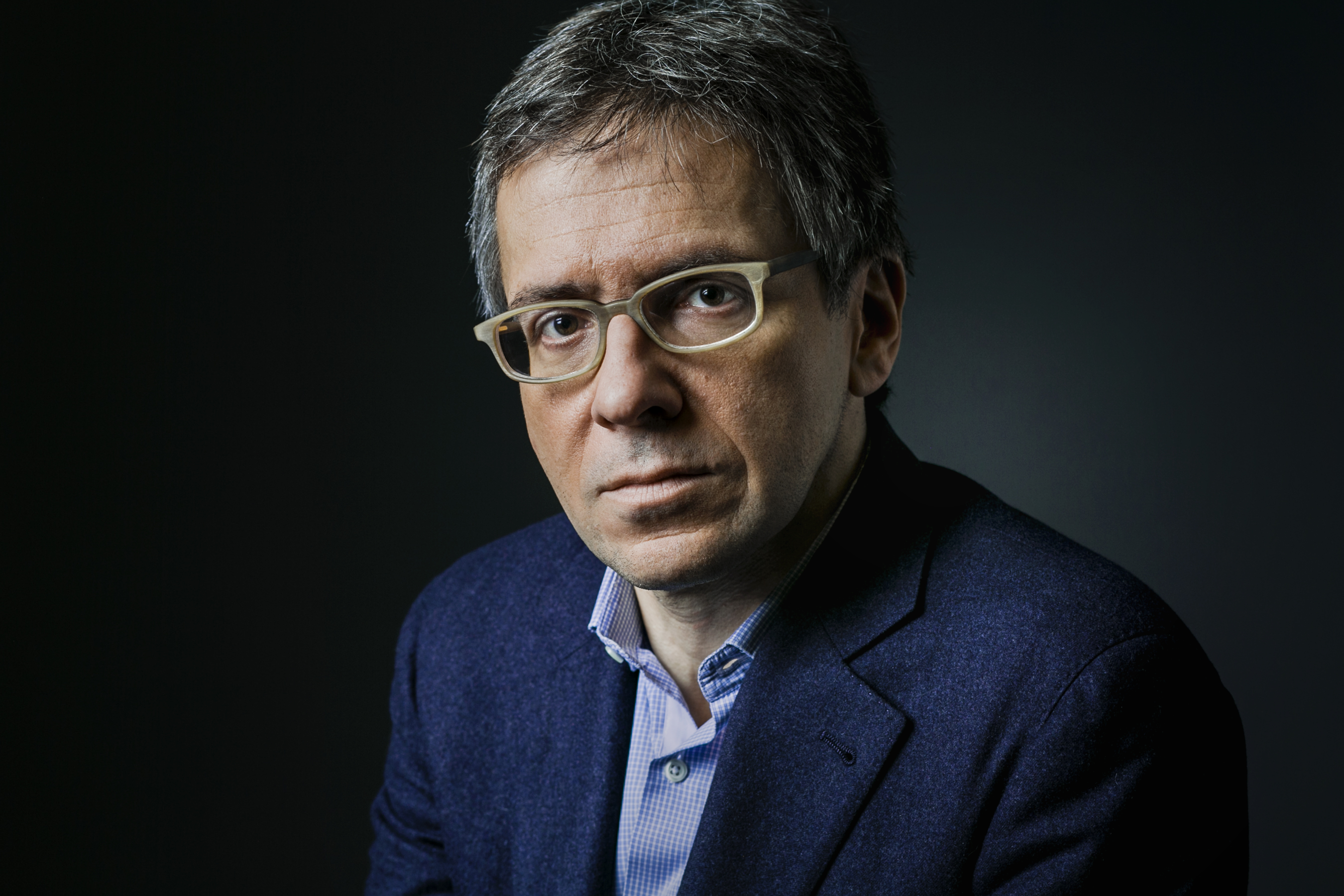 Ian Bremmer headshot